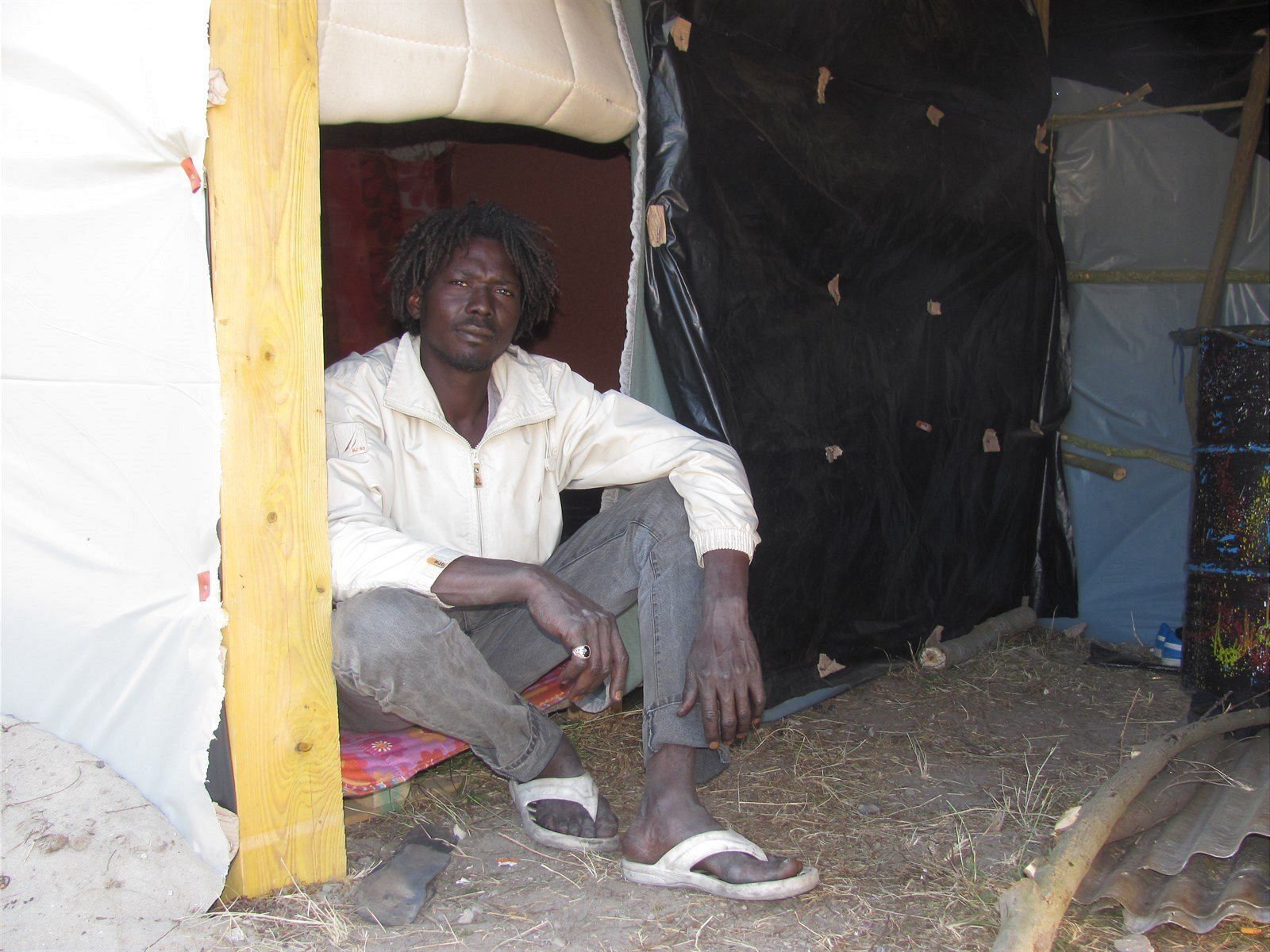 Sudanese migrant in "The Jungle" refugee camp outside Calais, 18th June 2015. Originally published at iDNES.cz